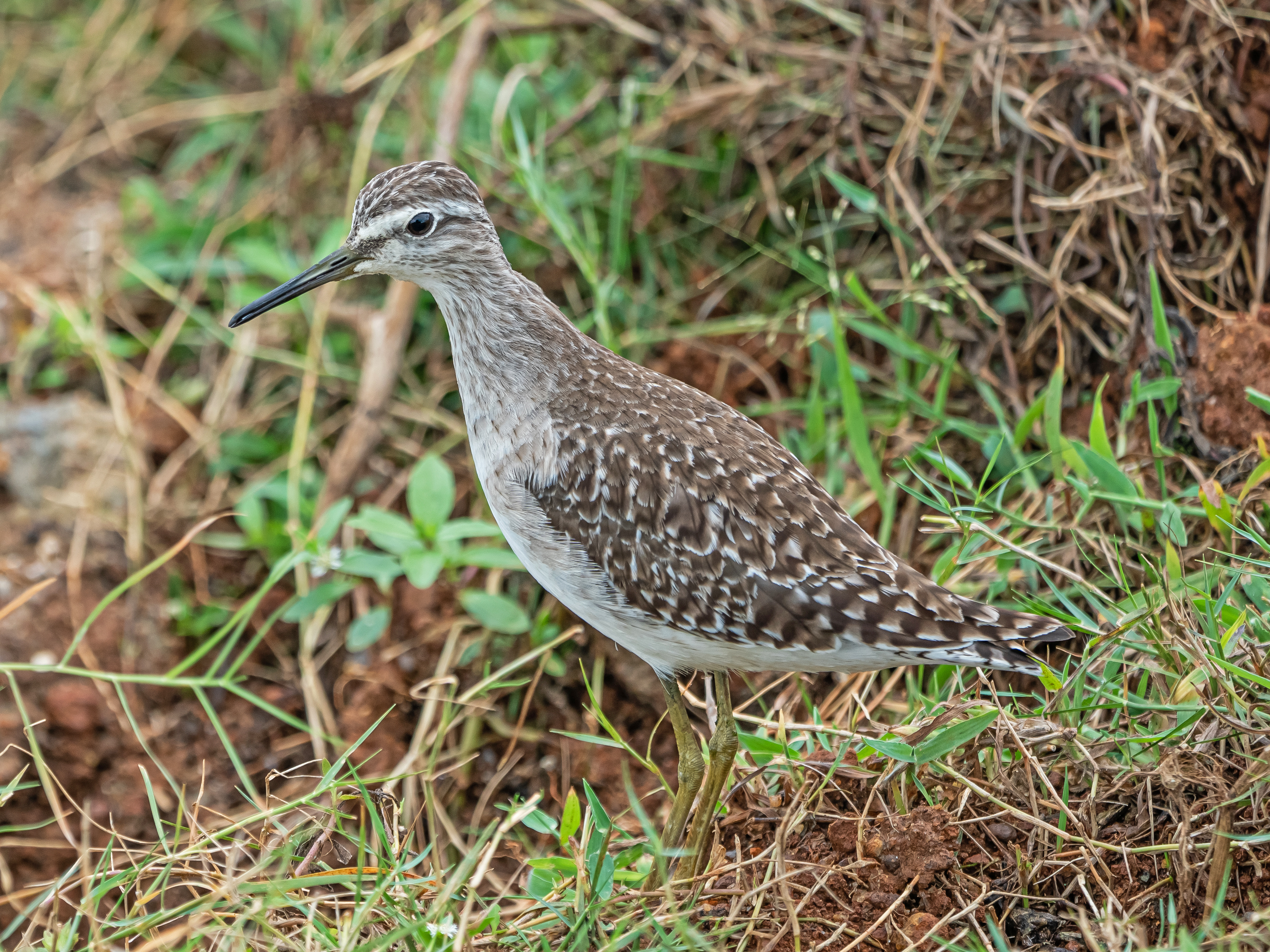 Wood Sandpiper in Bundala National Park, Sri Lanka